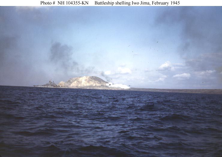 A battleship, probably USS Tennessee (BB-43) bombarding Iwo Jima prior to the initial landings, circa 19 February 1945. Mount Suribachi is in the left center, beyond the battleship, with a huge explosion at its base. Original 35mm Kodachrome transparency, photographed by Lieutenant Howard W. Whalen, USNR, Boat Group Commander, Sanborn (APA-193).